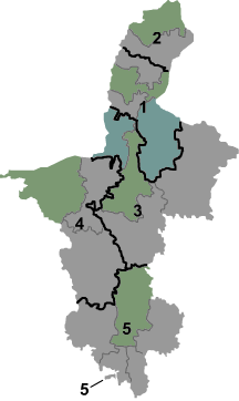 Map of prefectures of Ningxia Autonomous Region